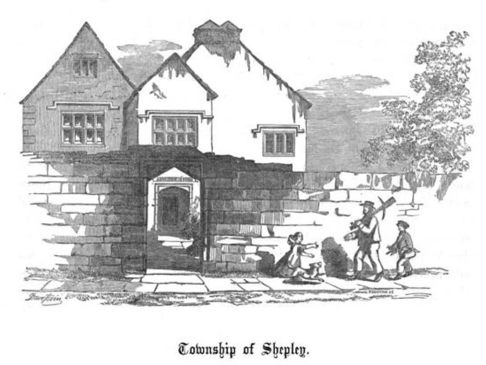 A drawing of Shepley Hall.